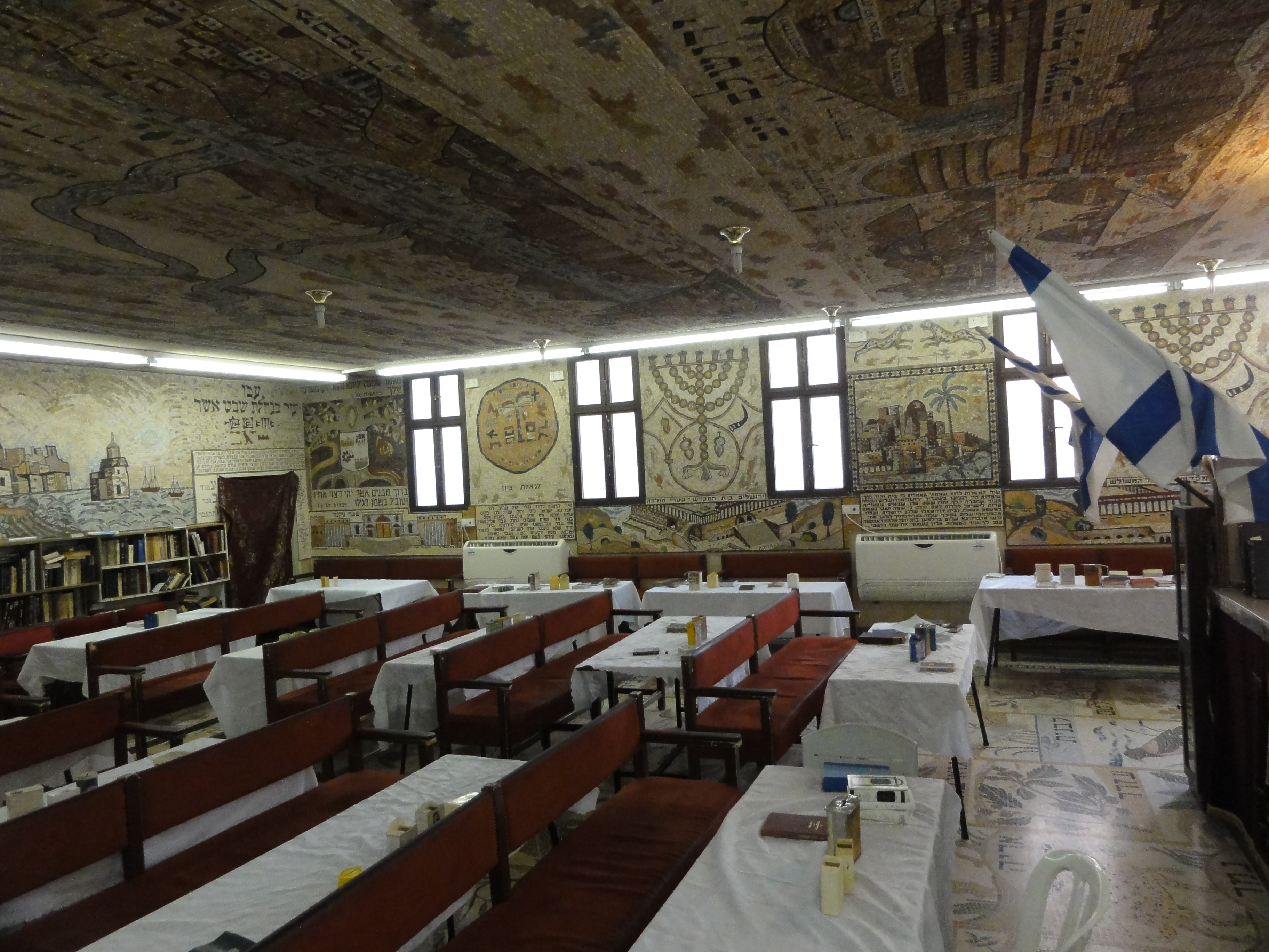 Or Torah Synagogue, Akko, Israel. Info GPS data may be inaccurate. EXIF data regarding date and time may be inaccurate.